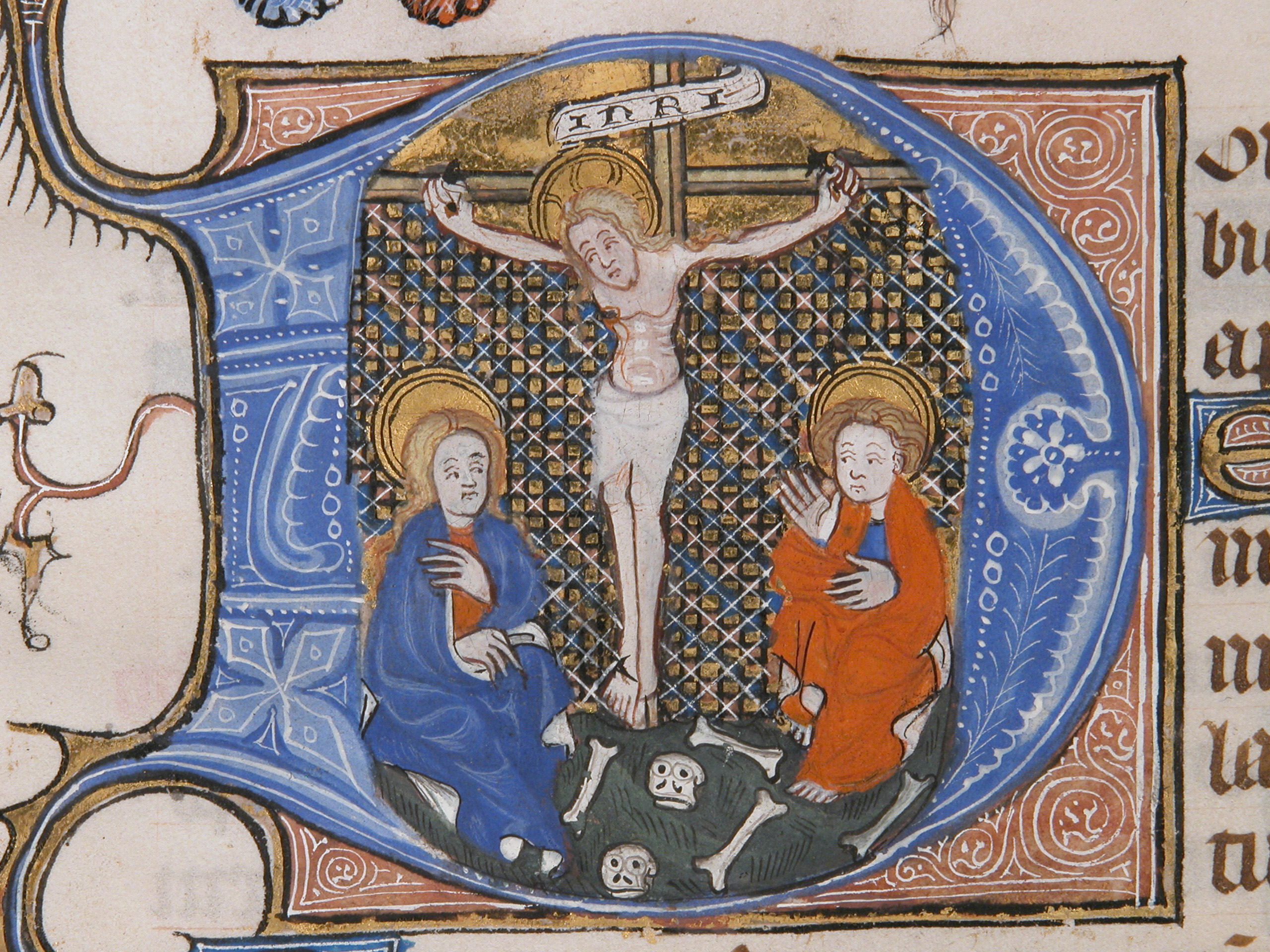 North French; Breviary; Manuscript leaf; Manuscripts and Illuminations